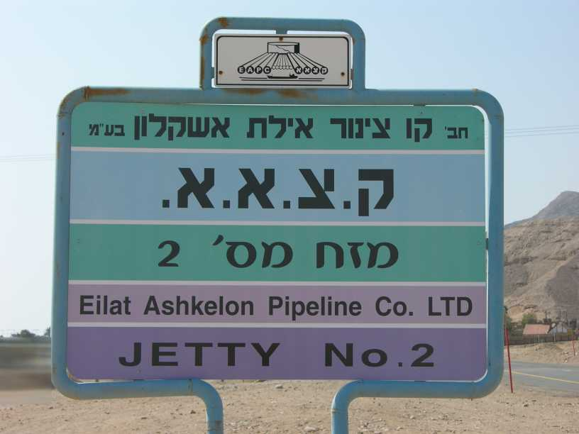 One of the two signs for the Eilat Ashkelon Pipeline